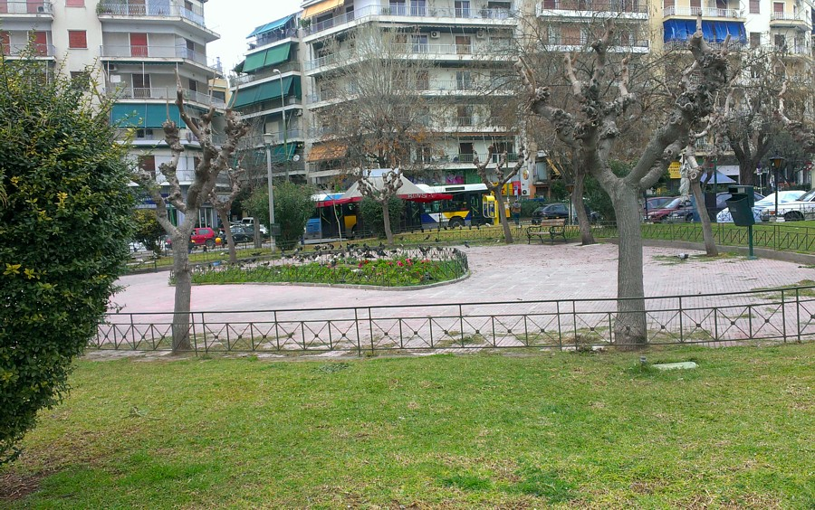 polygono